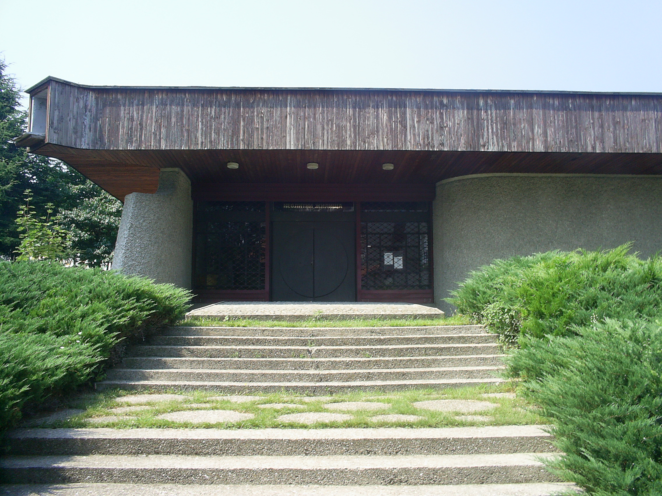 The Neolith dwellings museum, Stara Zagora, Bulgaria